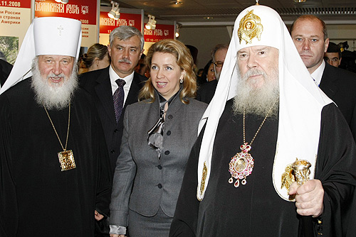 MOSCOW'S MANEZH CENTRAL EXHIBITION HALL. At an opening of the VII Church and Public Exhibition-Forum "Orthodox Russia".